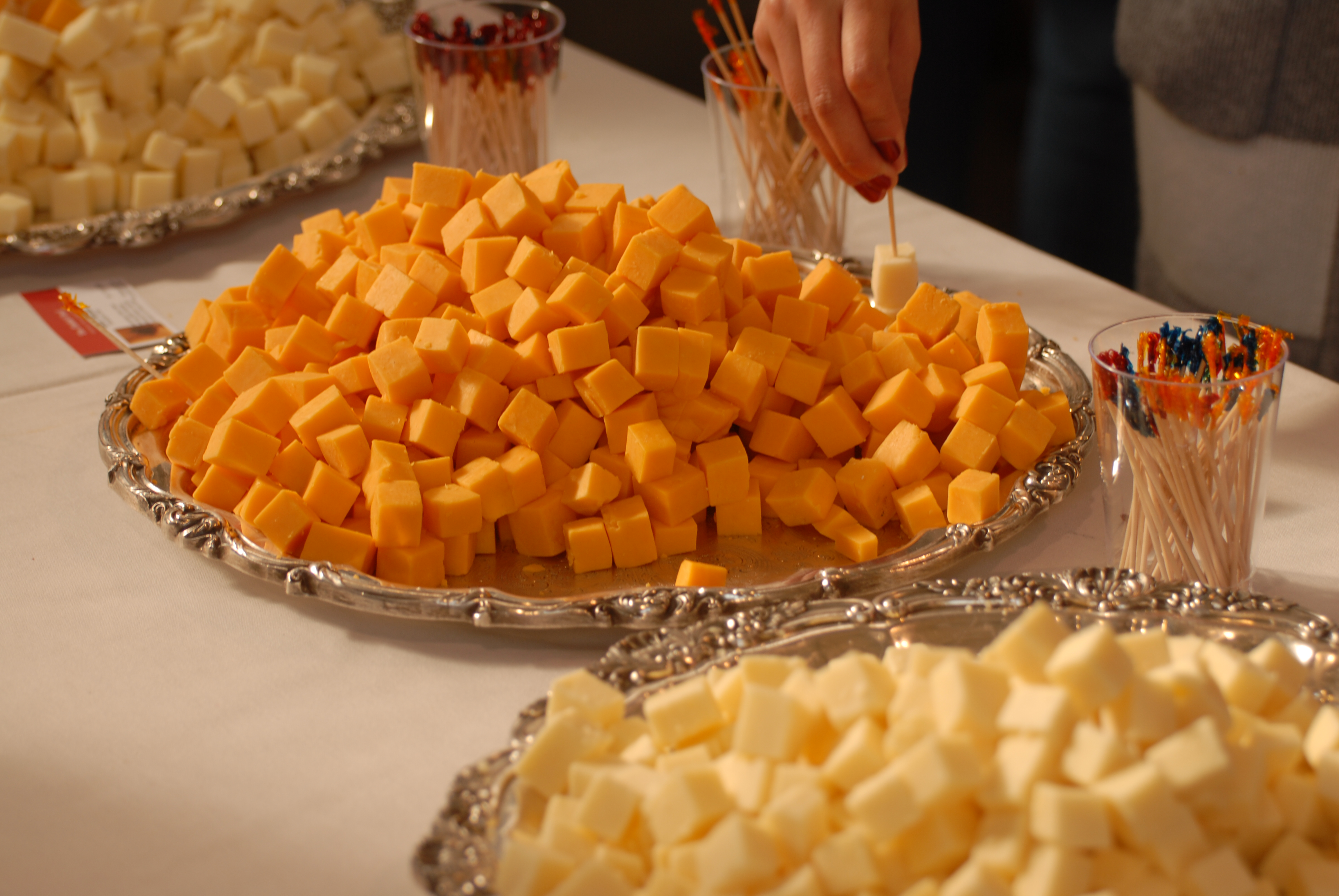 Cheddar cheese cubes at the Public tasting event of the San Francisco Chronicle Wine Competition 2010. Festival Pavilion, Fort Mason Center, San Francisco, California. The background features the Golden Gate Bridge